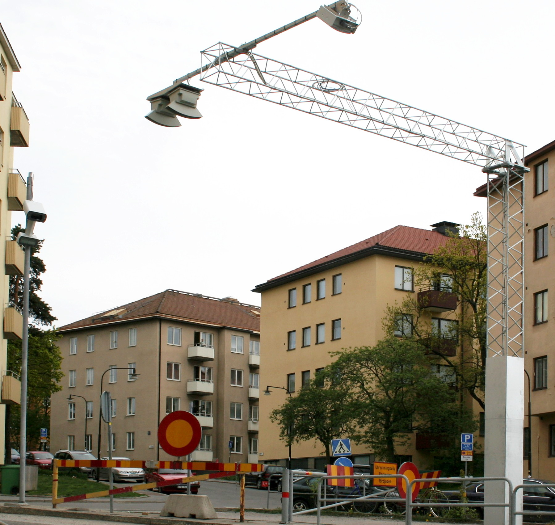 Stockholm's first tollstation for congestion pricing. The tollstation was installed May 19, 2005 and will be activated January 3, 2006. The tollstation stands on the slip road from Essinge brogata on to Essingeleden (E4).